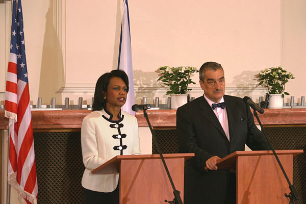 US Secretary of State Condoleezza Rice and Minister of Foreign Affairs of the Czech Republic Karel Schwarzenberg in Prague, Czech Republic.